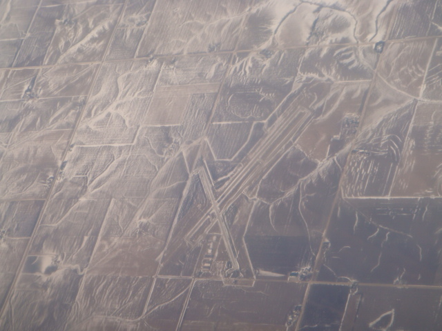 Iowa's Clinton Municipal Airport as seen from the airplane